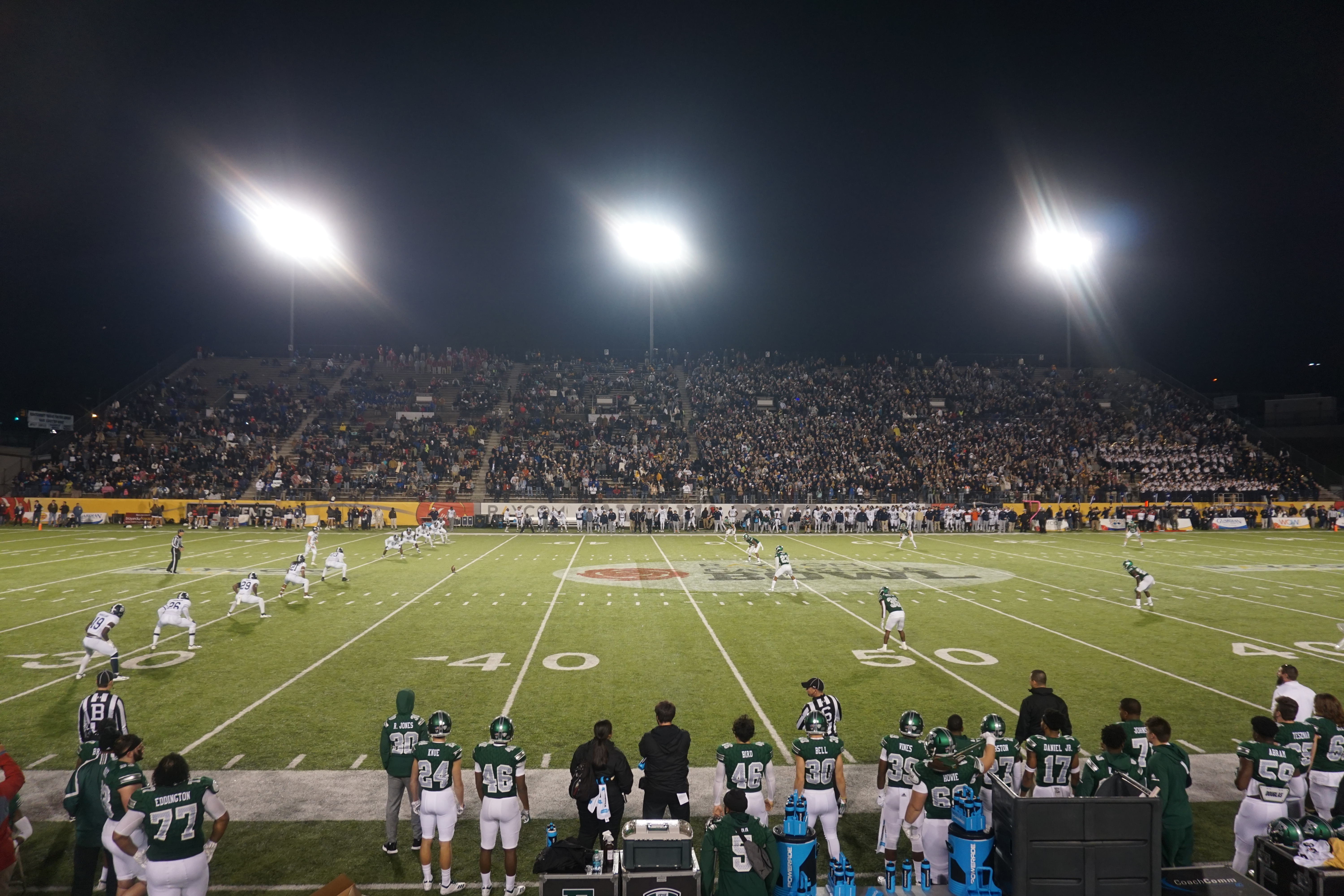 Georgia Southern kicking off during the 2018 Camellia Bowl (Georgia Southern Eagles vs. Eastern Michigan Eagles) at the Cramton Bowl in Montgomery, Alabama (United States). Georgia Southern won 23–21.